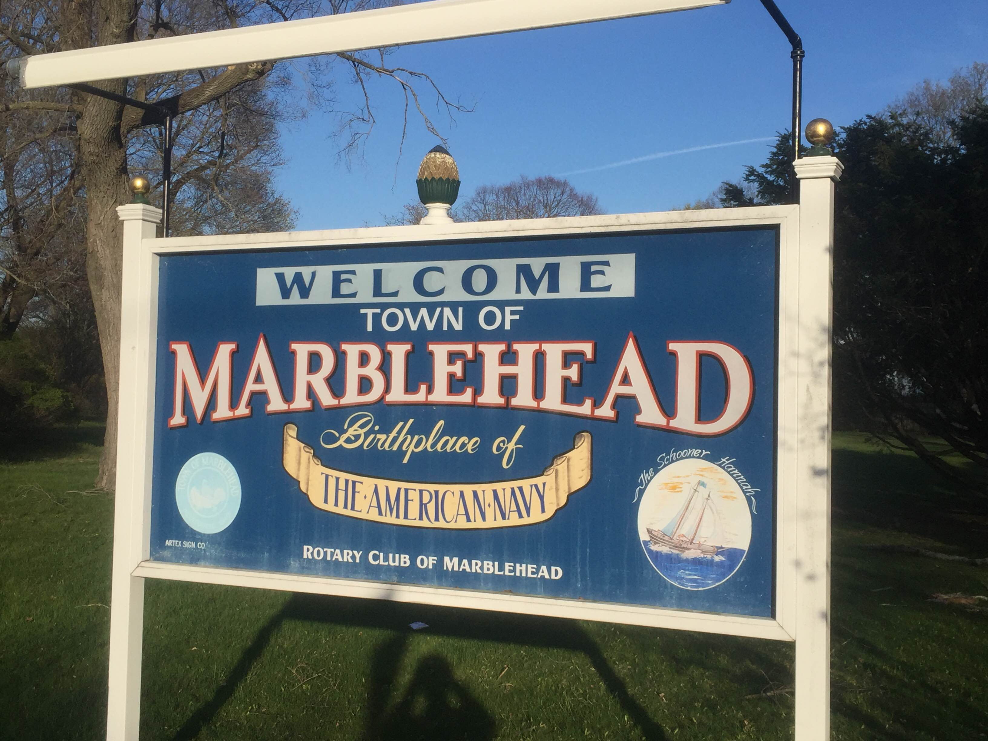 Marblehead welcome sign clearly claiming the town as "Birthplace of the American Navy"